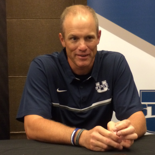 Matt Wells, head coach of the Utah State Aggies football team, at the 2016 Mountain West Conference Media Days in the The Cosmopolitan in Las Vegas.